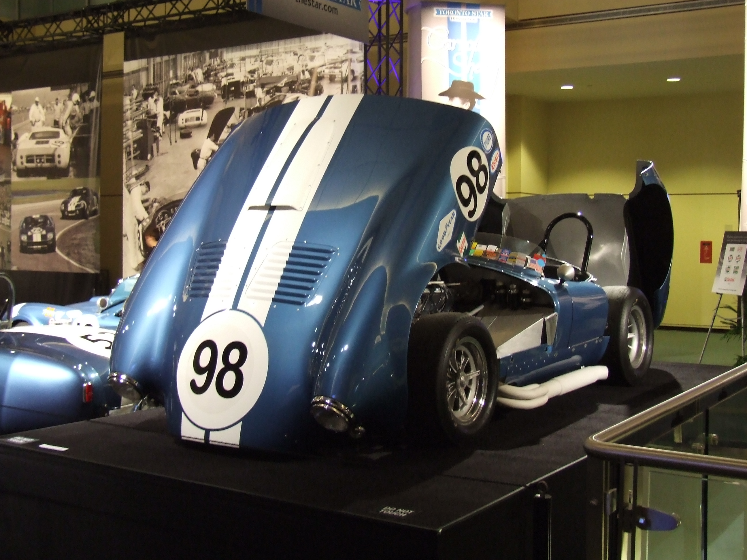 Shelby AC Cobra, one off Flip Top prototype, 2010 Canadian International AutoShow.